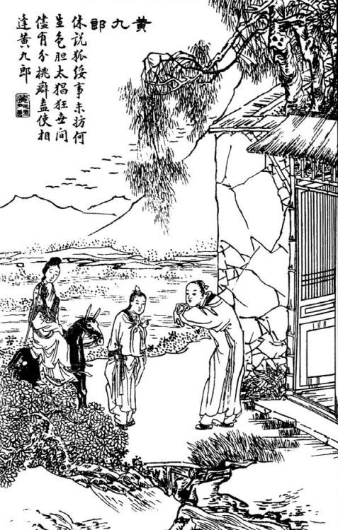 An illustration of a scene in the short story "Huang Jiulang".